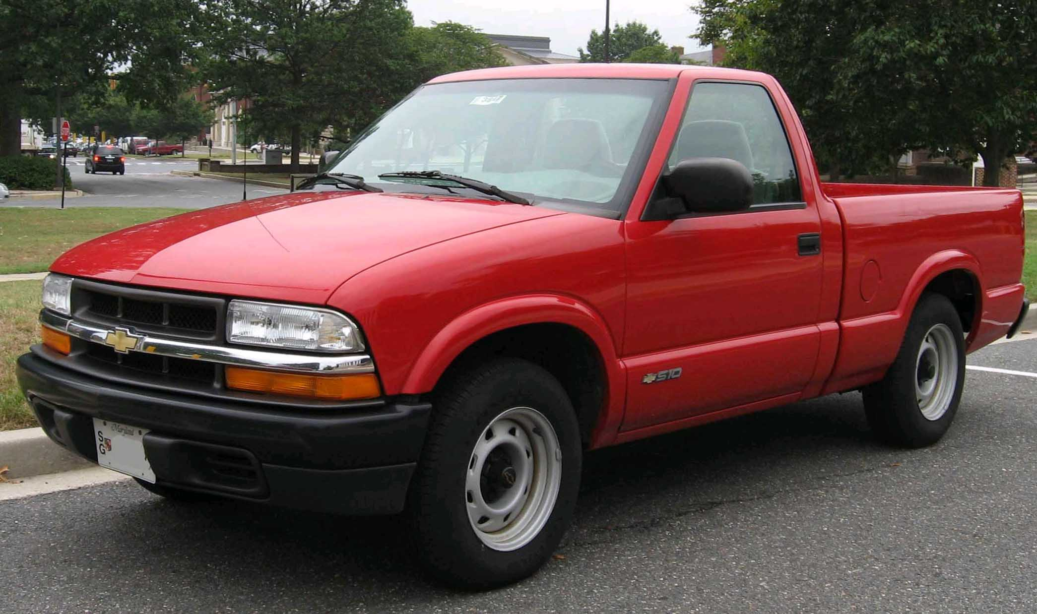 1998-2003 Chevrolet S-10 photographed in USA.